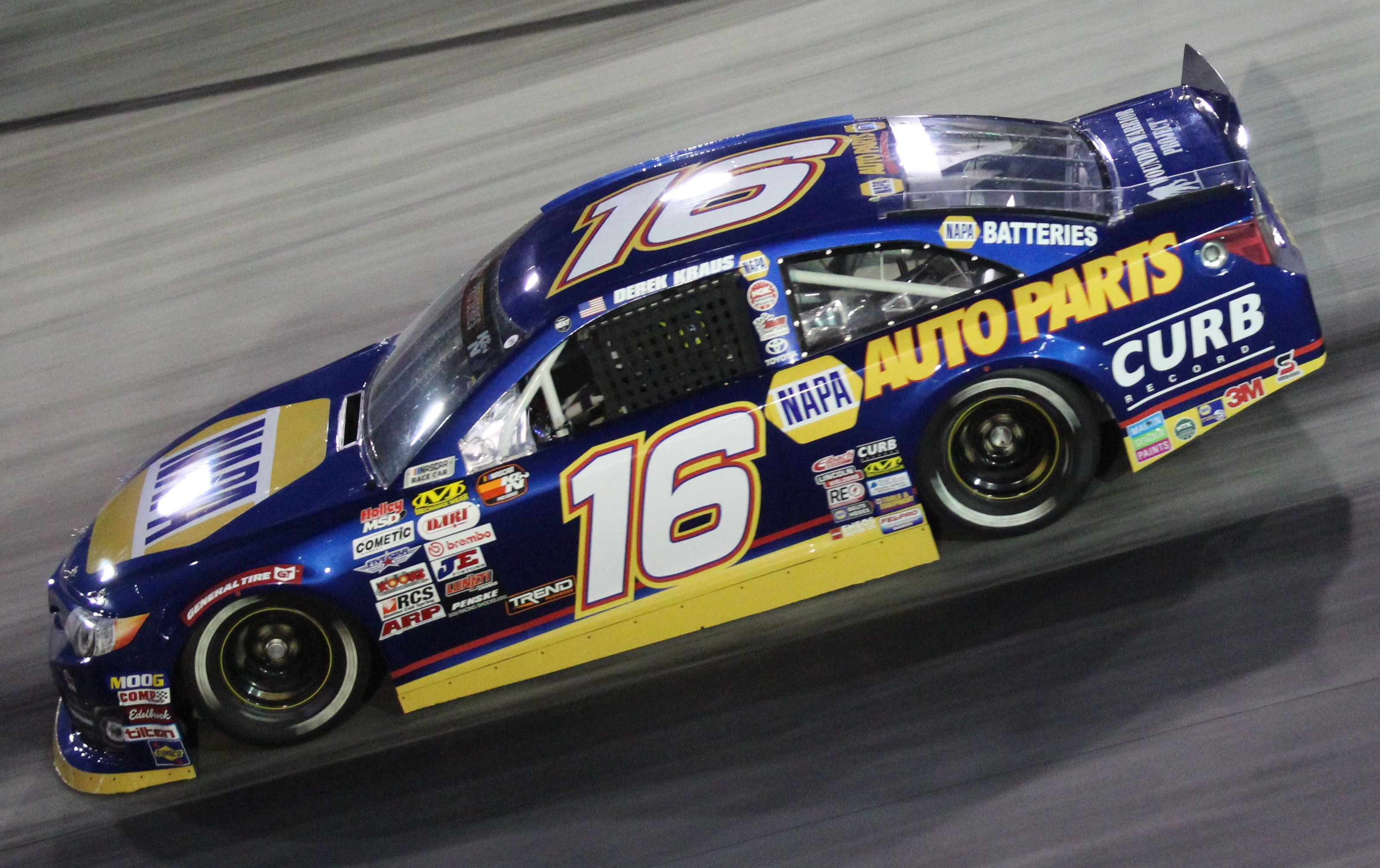 Derek Kraus racing in the NASCAR Xfinity Series in early 2019